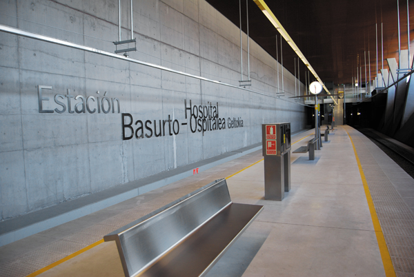 Feve Bilbao Basurto Hospital station (Bilbao, Basque Autonomous Community, Spain).